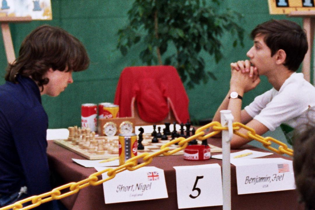 Nigel Short - Joel Benjamin, Junior Chess World Championship 1980 at Dortmund, Photographer Gerhard Hund.